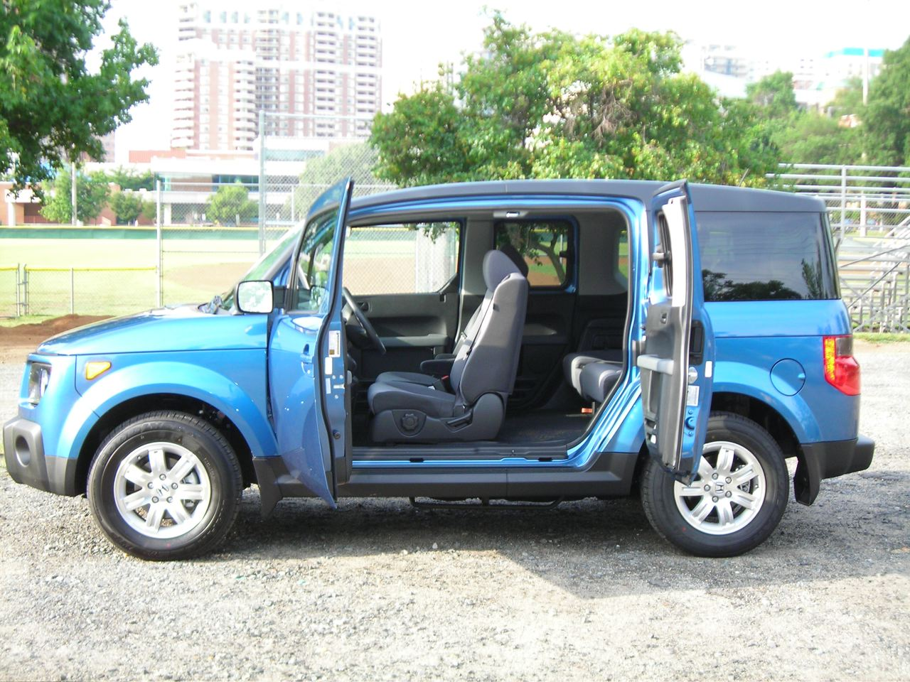 2008 Honda Element EX with clamshell doors open